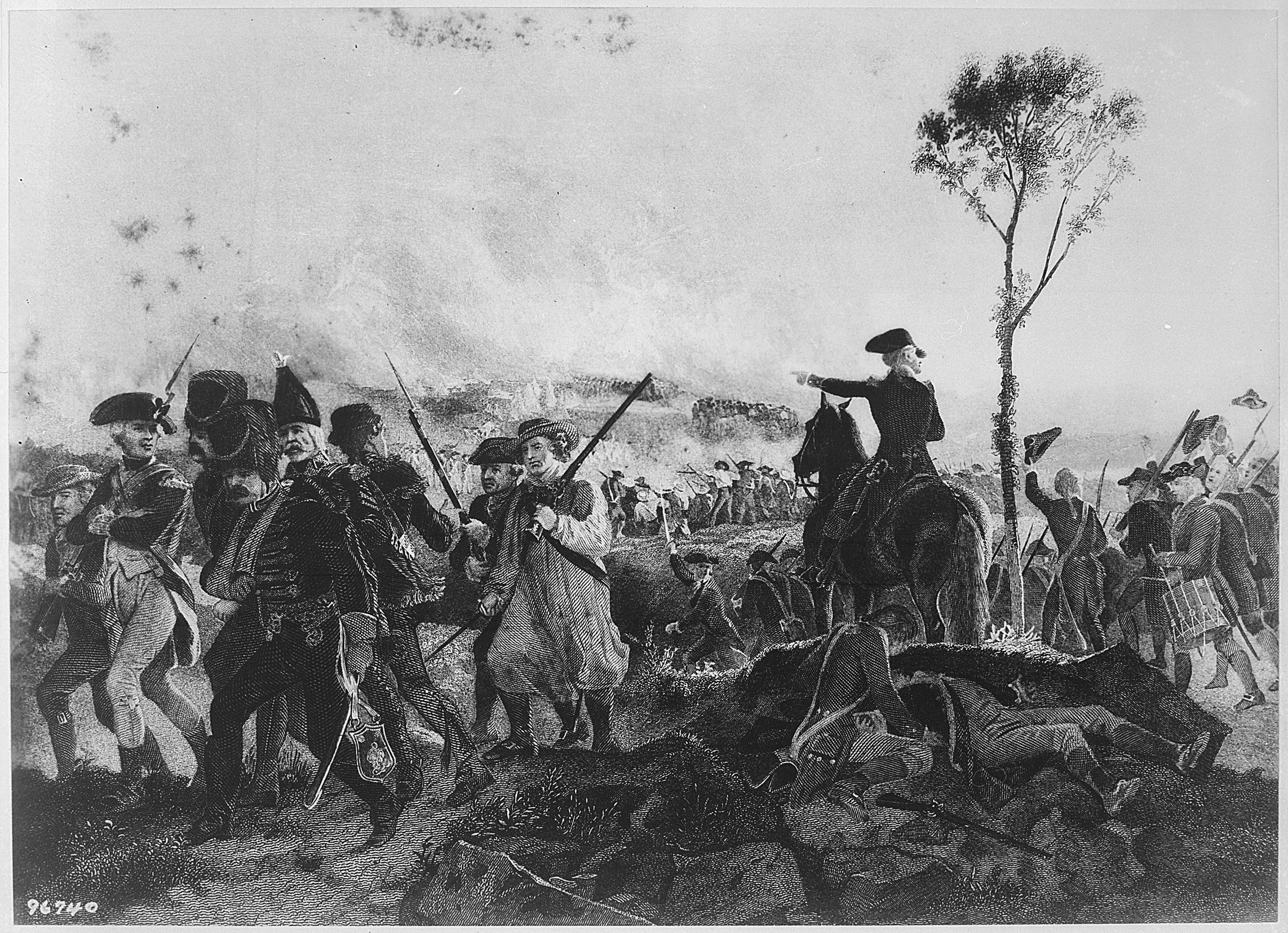 General notes: Engraving from painting by Alonzo Chappel